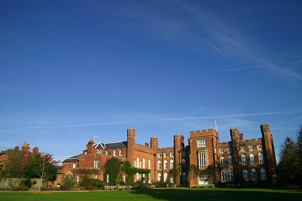 Photo by Jan Adriaenssens, 20 November 2005.